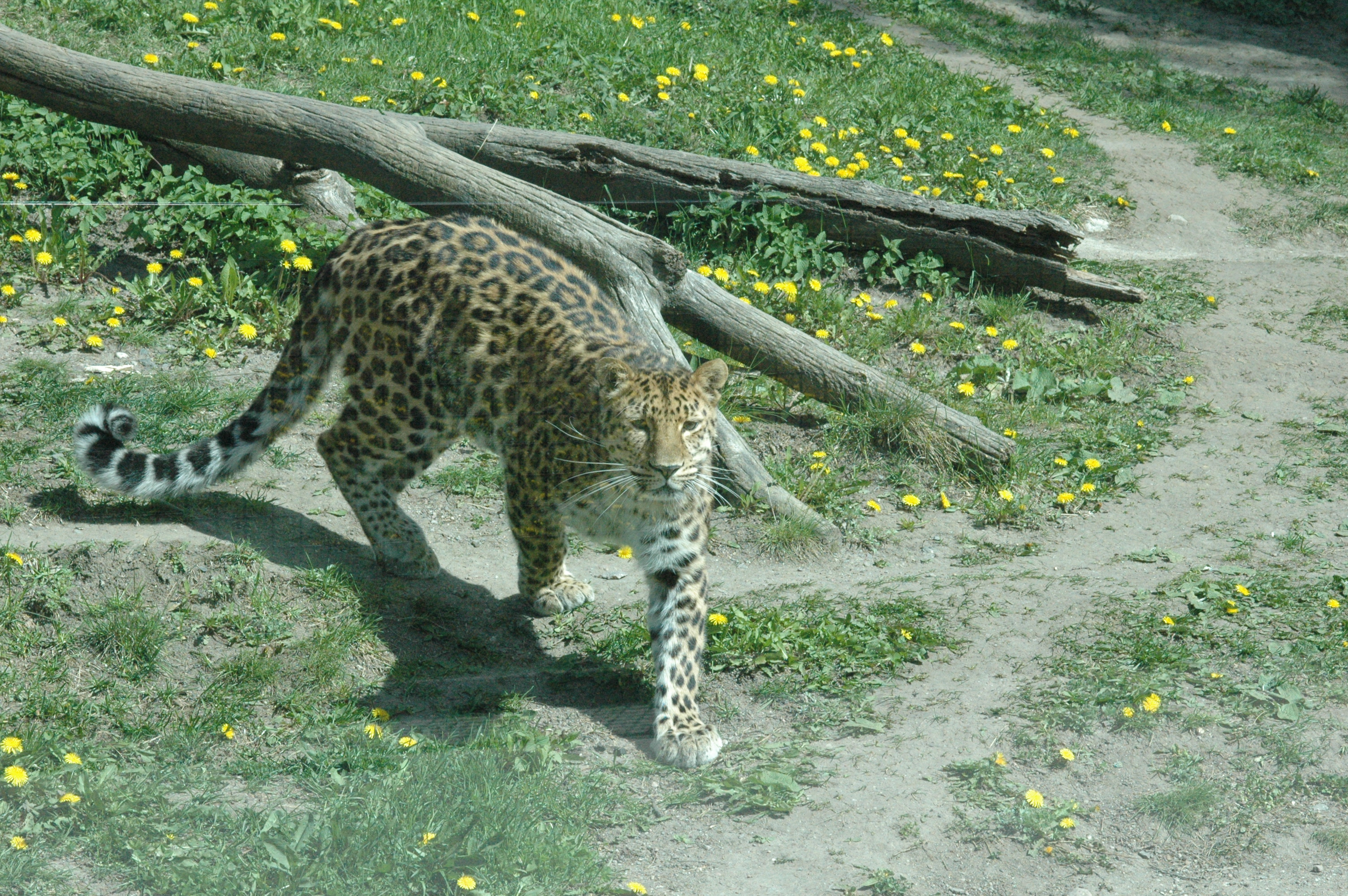 Leopard at Parken Zoo (Sweden)